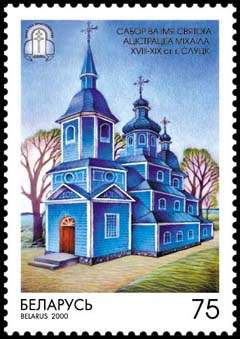 Stamp of Belarus